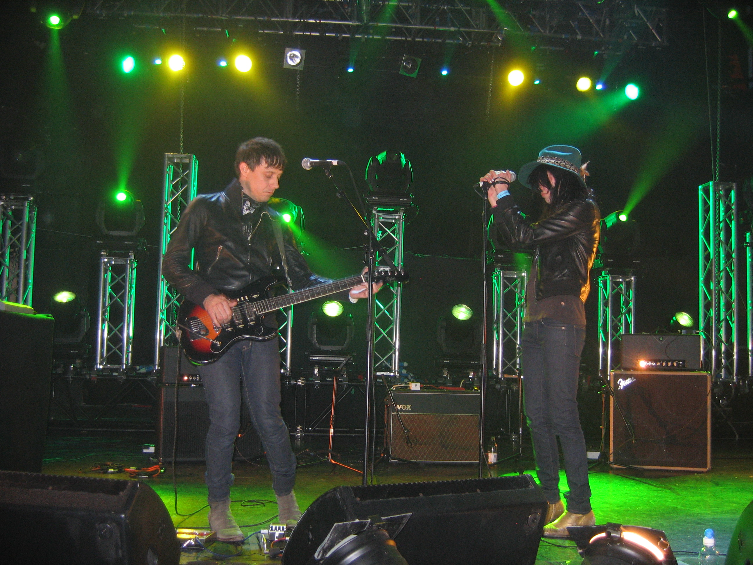 The Kills live at Koko in London, February 25, 2008. Photo by Nat Miller.